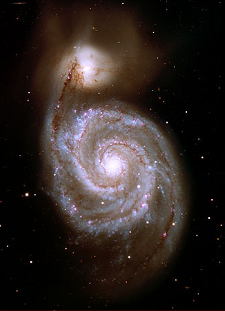 The Whirlpool Galaxy (M51)